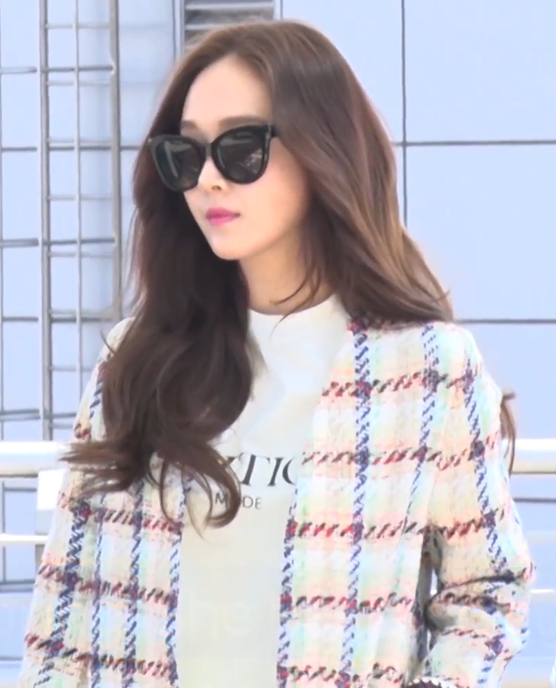 Jessica Jung heading to Macao for a concert.